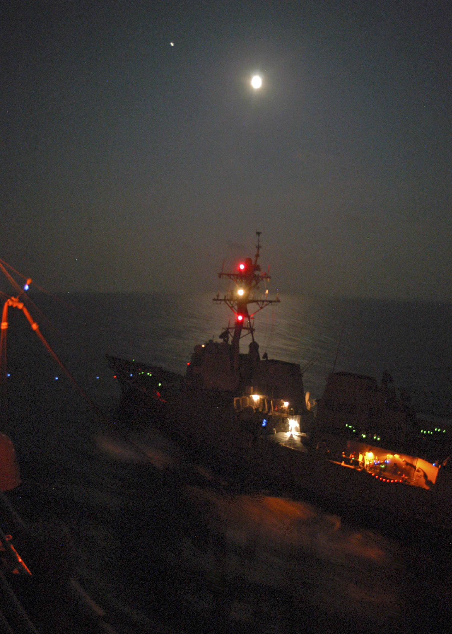 ATLANTIC OCEAN (Sept. 8, 2008) USS James E. Williams (DDG 95) receives fuel during a fueling-at-sea with the multi-purpose amphibious assault ship USS Bataan (LHD 5). Bataan is at sea after completing HURREX 08-002. HURREX was a Commander, U.S. 2nd Fleet-directed exercise designed to test the ship's ability to respond to humanitarian assistance and disaster relief needs during the 2008 hurricane season. (U.S. Navy photo by Mass Communication Specialist 2nd Class Jeremy L. Grisham/Released)